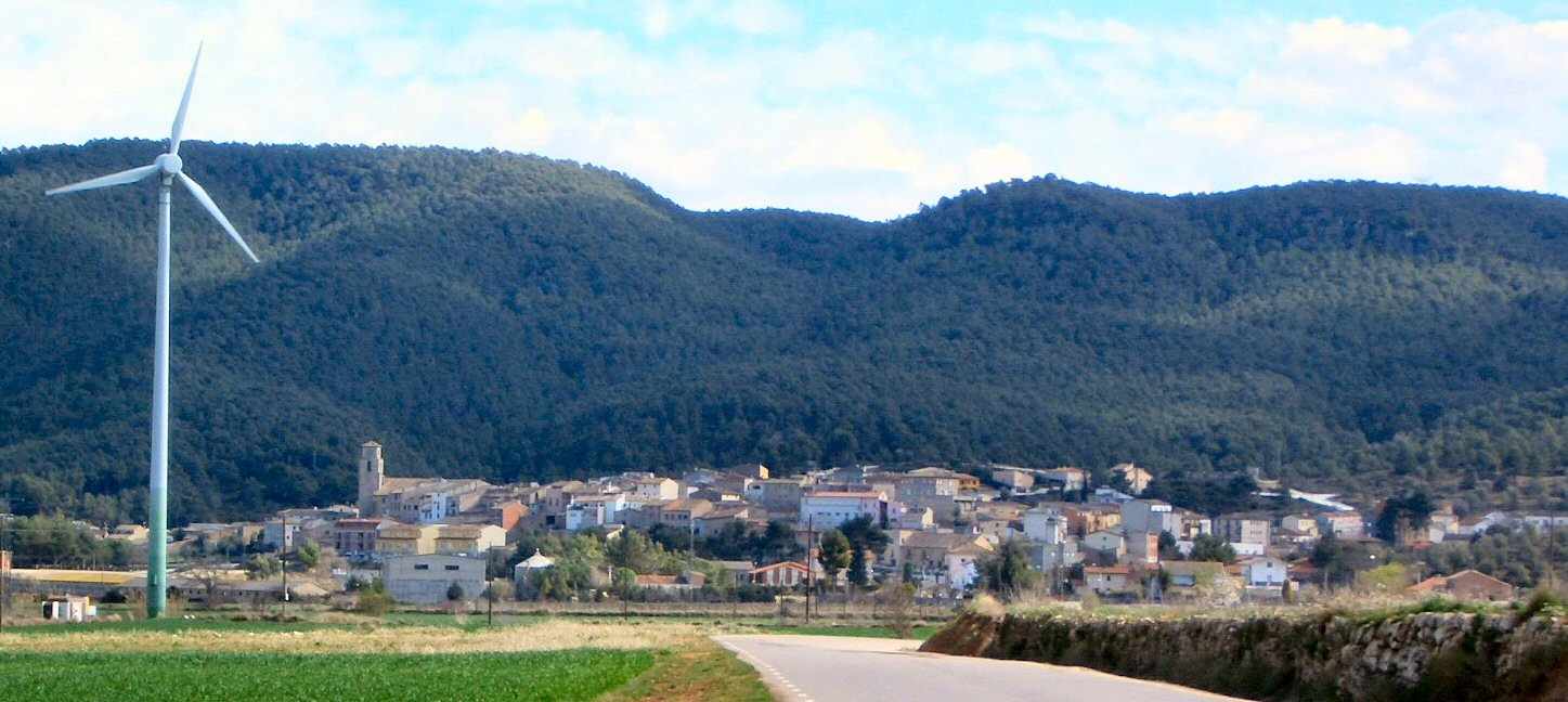 Picture of La Llacuna, Anoia, Catalonia